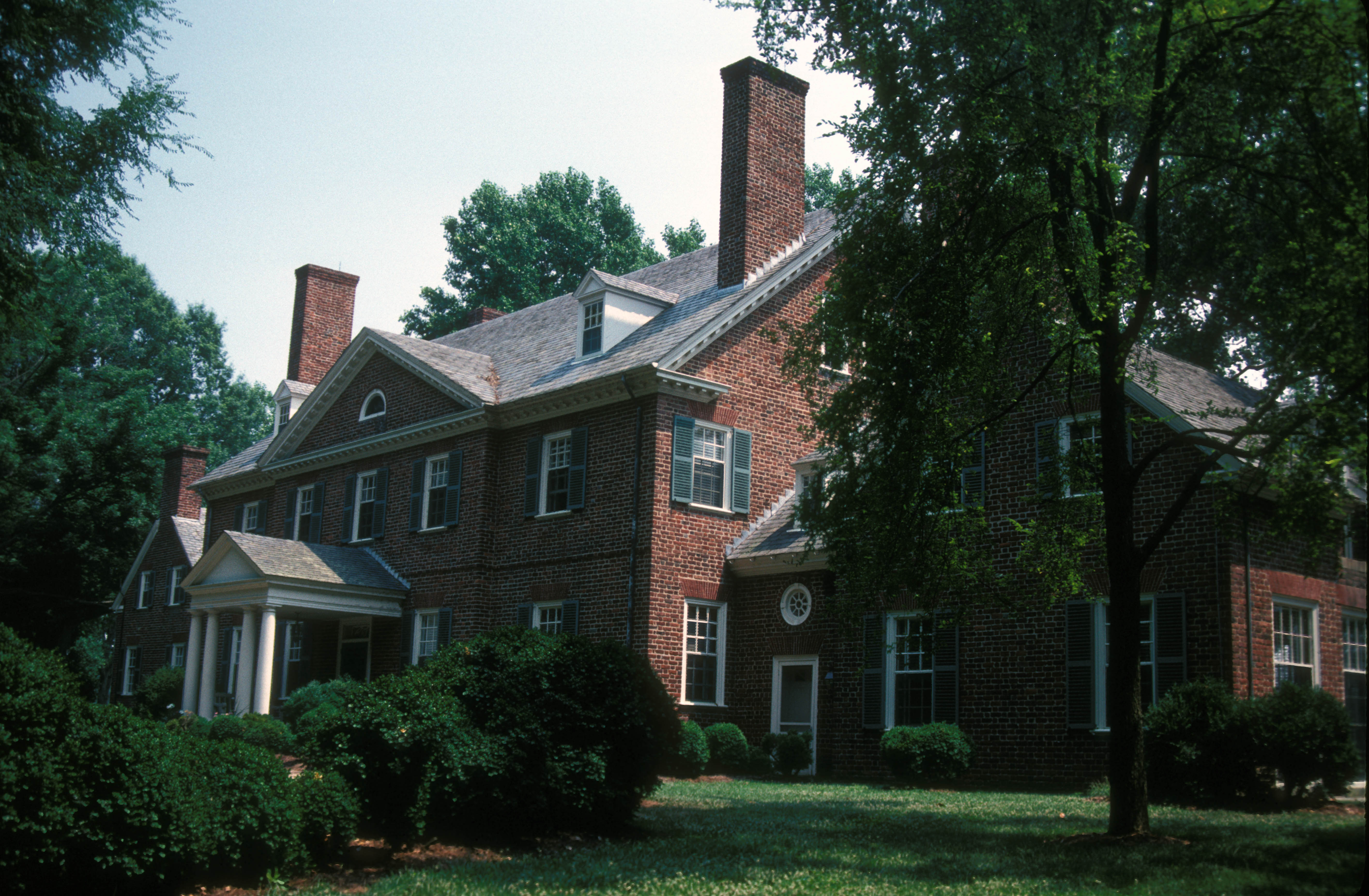 20TH C RECONSTRUCTION OF A VIRGINIA PLANTATION HOME OF THE 18TH & 19TH C. ON THE RUINS OF A PREVIOUS HOME. ACQUIRED BY EDMUND RUFFIN, DISTINGUISHED AGRONOMIST AND MAN WHO FIRED THE FIRST SHOT AT FT. SUMTER. STILL IN THE RUFFIN FAMILY